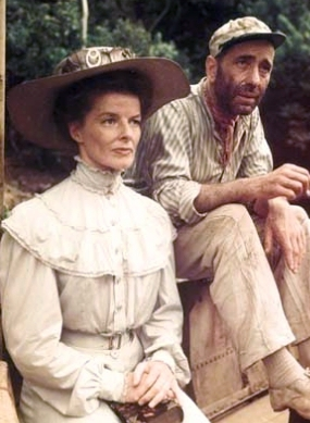 Image of Katharine Hepburn and Humphrey Bogart during the production of The African Queen. The photograph was taken on-set by the studio, most likely for publicity purposes. Such images were then disseminated to the media and the public to promote the film (see Film still). It is definitely not a screenshot as an exact image like this never appears in the film, and the quality of screenshots from the film are lower (see two here and here, for comparison). Public domain explanation The image is reproduced on the Encyclopedia Britannica website, with the credit "Courtesy of United Artists Corporation". It does not include a © symbol, which EB does for images which are copyrighted. This suggests that the image here was either never copyrighted, or the copyright was not renewed. Since the image was published prior to 1977, under the terms of the 1909 Copyright Act (which was law until 1978), any copyright that may have been secured for the photograph would have had to be renewed 28 years after publication. The copyright for this image would therefore have had to be renewed in 1979. A search with The United States Copyright Office for "The African Queen" finds no trace that this occurred. Searching for "Katharine Hepburn" and Humphrey Bogart" finds no evidence that a photograph taken of them in 1951 had its copyright renewed. Film industry author Gerald Mast has written: "According to the old copyright act, such production stills were not automatically copyrighted as part of the film and required separate copyrights as photographic stills ... Most studios have never bothered to copyright these stills because they were happy to see them pass into the public domain, to be used by as many people in as many publications as possible." (Film Study and the Copyright Law (1989) p. 87.)